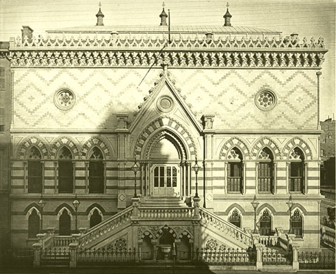 National Academy of Design in New York City (built 1862-65, photo 1876). Category:Images of New York City